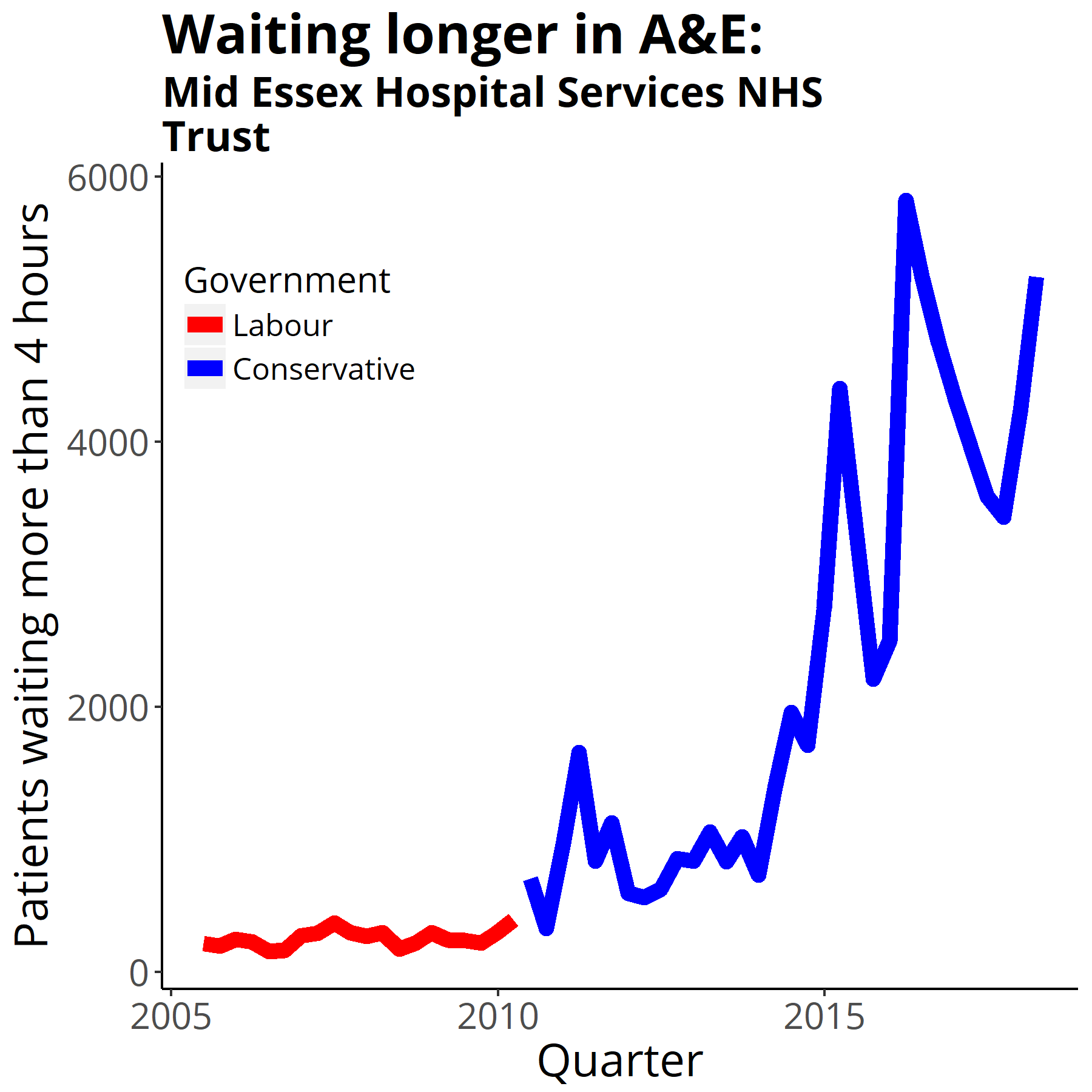 Four-hour target in the emergency department quarterly figures from NHS England Data from